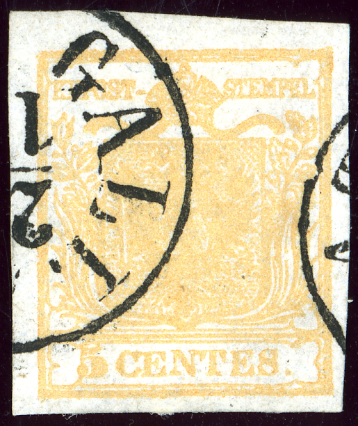 Stamp of Lombardy-Venetia, 5 centesimi issue 1850, type I, cancelled at GALLARATE (Lombardy Region). Michel 1a.